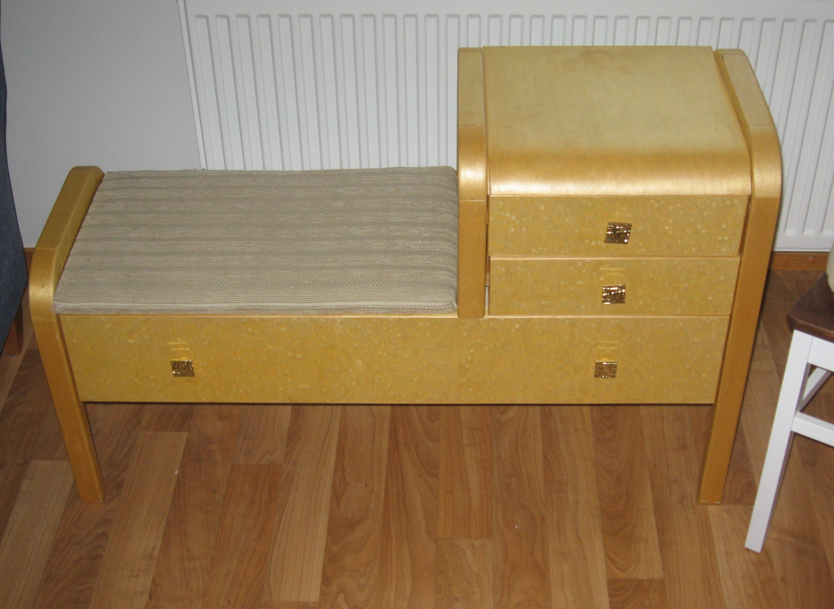 Phonetable for old kinds of phones